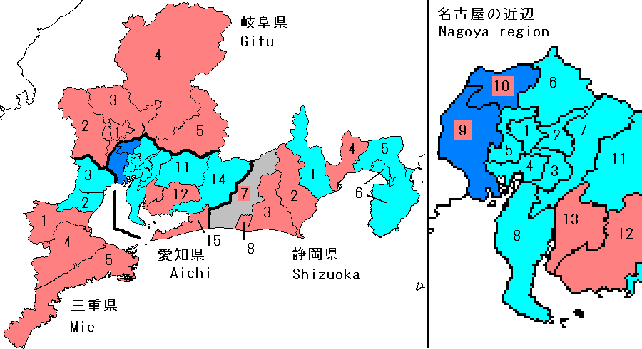 Presentation of the results of the Japan general election, 2003 in the single member districts of the Tokai block, based on district boundary information in :ja:衆議院小選挙区一覧 and mapping tools provided by Japanese Wikipedia User Koba-chan. Color codes: LDP - red DPJ - light blue New Komeito - green SDP - purple New Conservative Party - dark blue Other/Independent - gray Some independent politicians joined major parties immediately after the election, and their districts are marked with a colored square around the number. This is also true for the members of the New Conservative Party, which was wholly subsumed into the LDP.